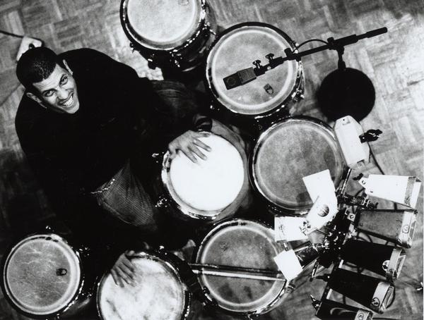 Miguel 'Anga' Diaz